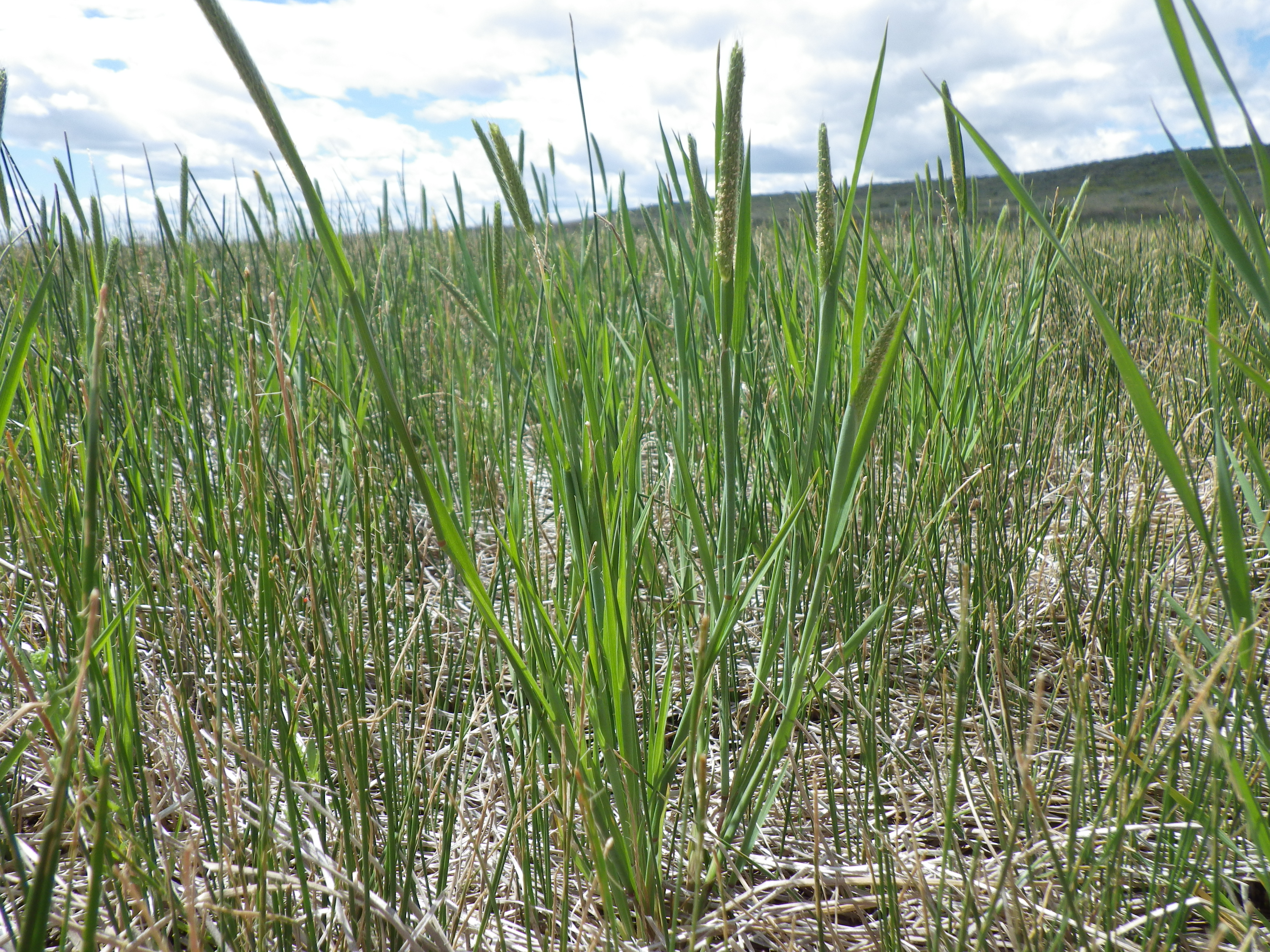 This annual bunchgrass is common in pastures where water collects for part of the year (as in the case where spreader dikes divert water into the lowest lying areas for much of the spring and early summer).